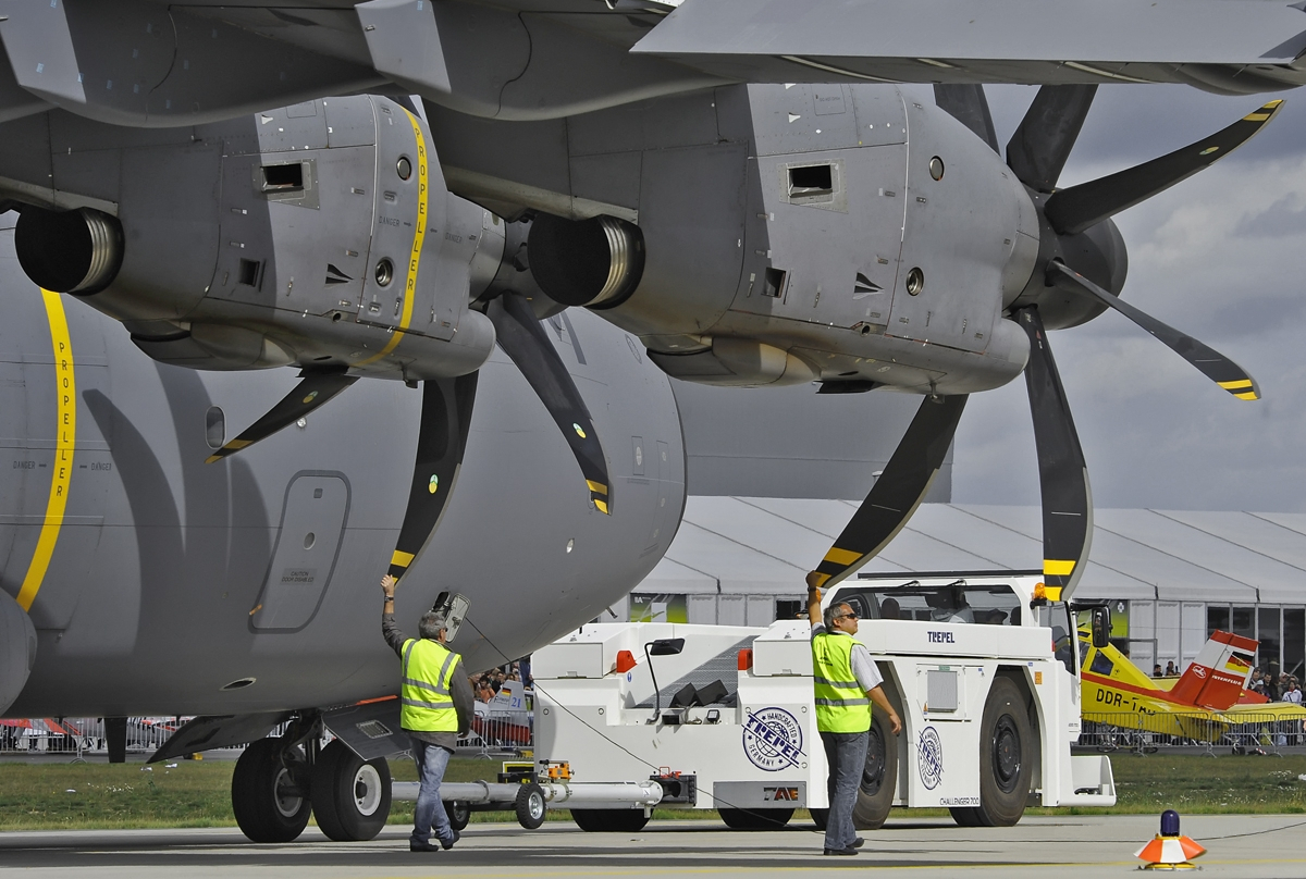 Airbus Industrie Airbus A400M Grizzly EC-404